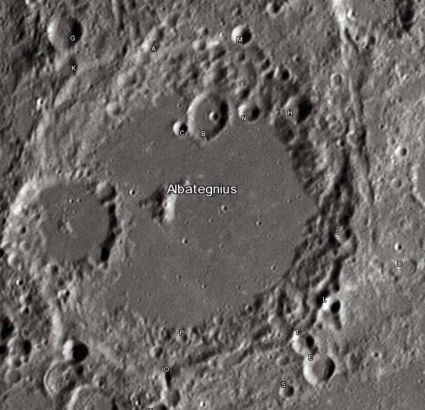 Albategnius lunar crater as seen from Earth with satellite craters labeled